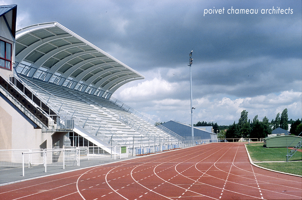 Más caminos